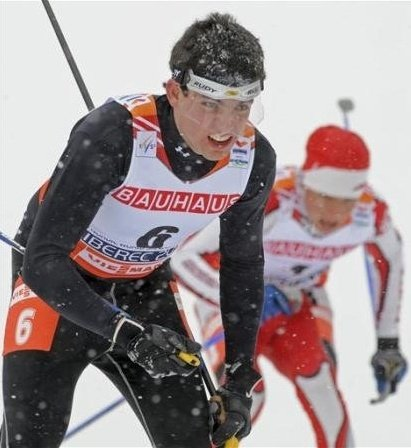 Baena skier racing in the Liberc 2009 World Ski Championships.